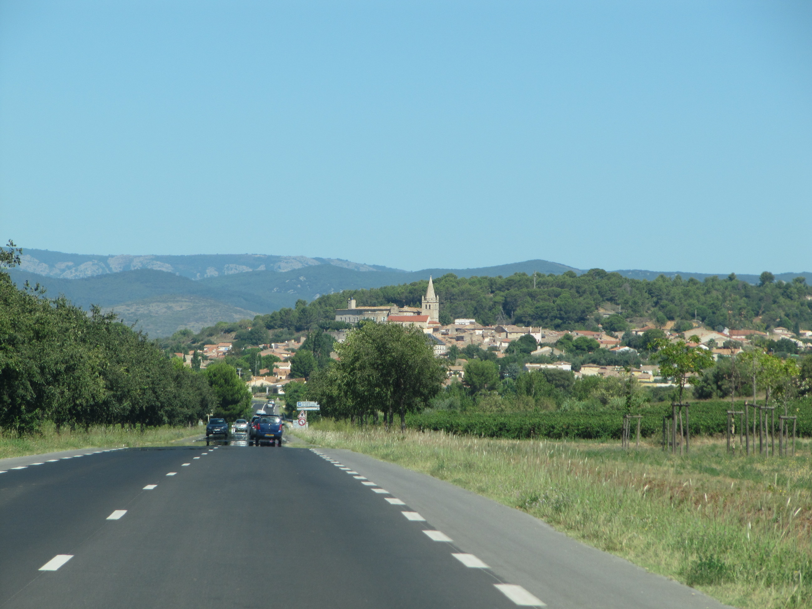 Murviel-lès-Béziers